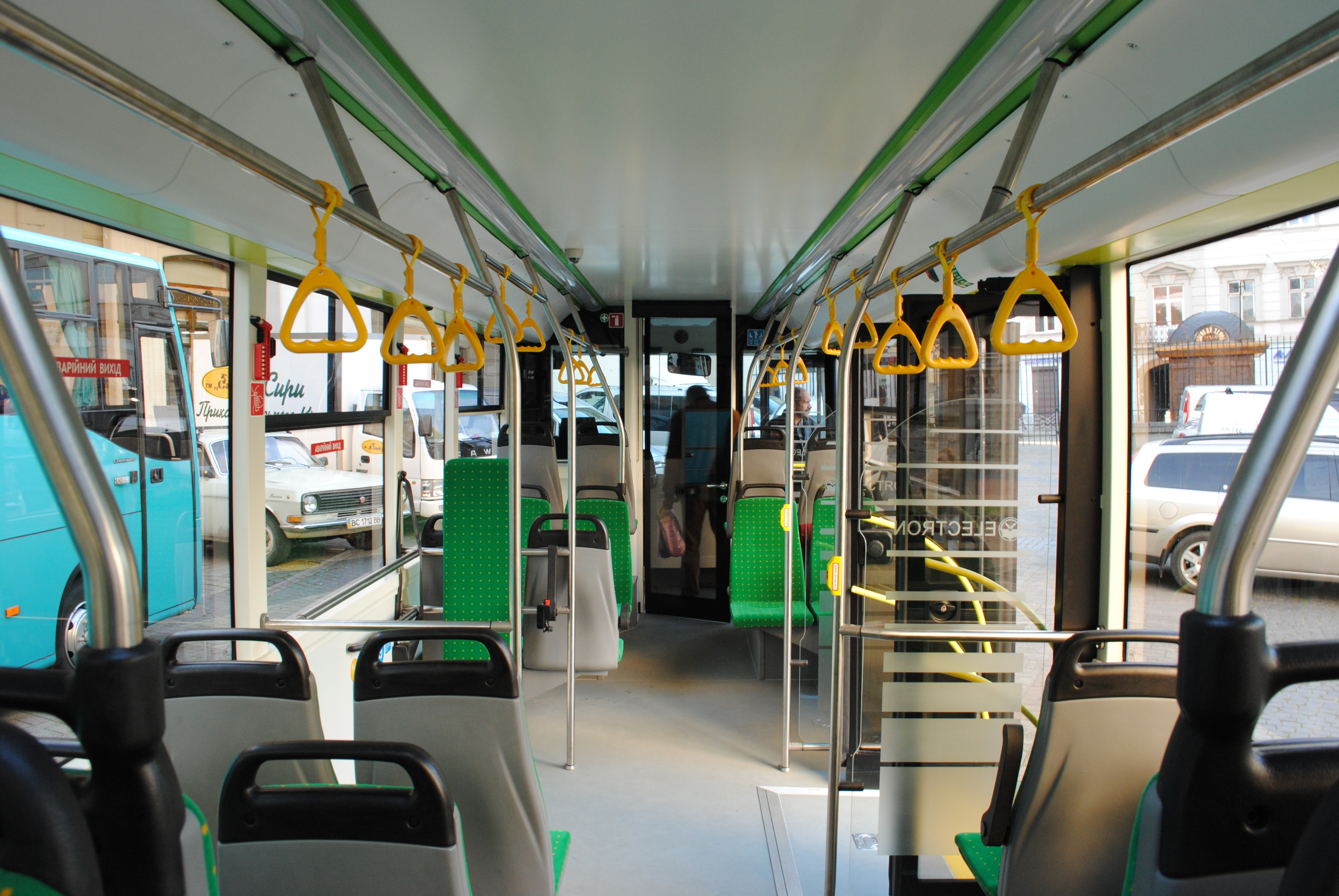 Electron T19101 trolleybus on Lvivsky Tovarovyrobnyk Expo.